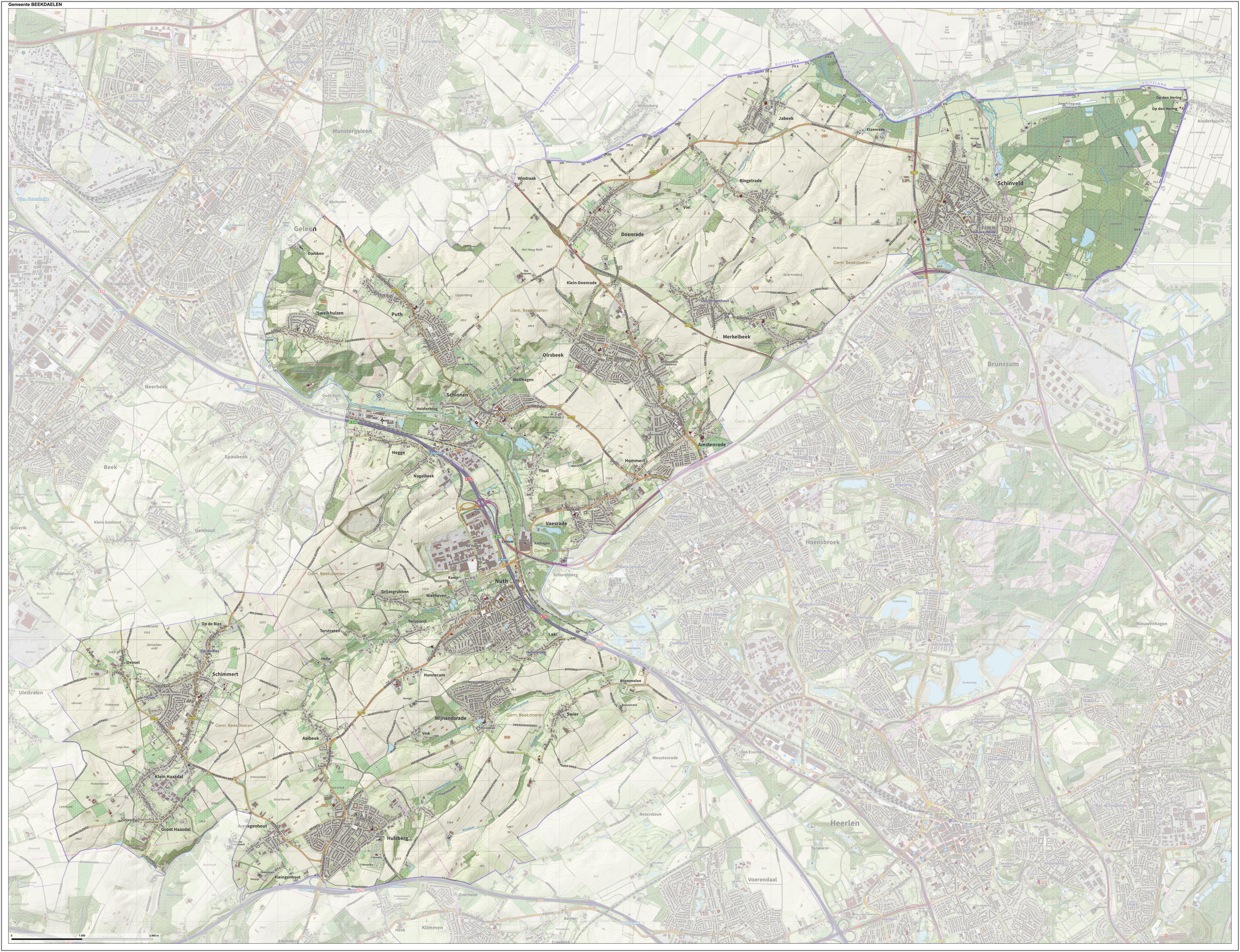 Topographic map of the upcoming municipality. Compiled by Jan-Willem van Aalst using open data from the Dutch Government collection of Geodata, plus OpenStreetMap, CC-BY OSM contributors.